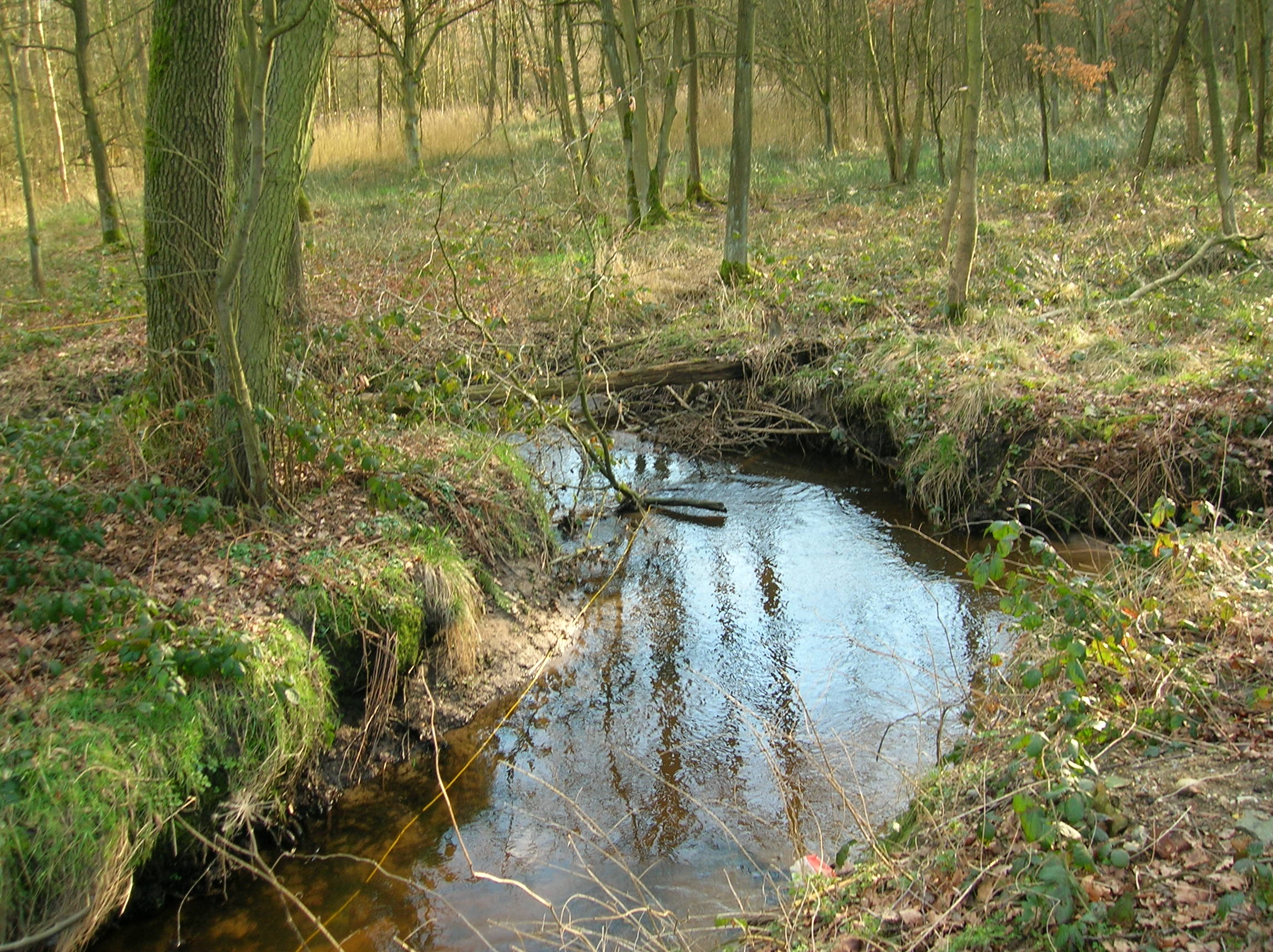 This brook (Bosbeek) is used in a reintroduction program for burbot (Lota lota) in Flanders, Belgium. The young fish live in holes in the brook's banks.